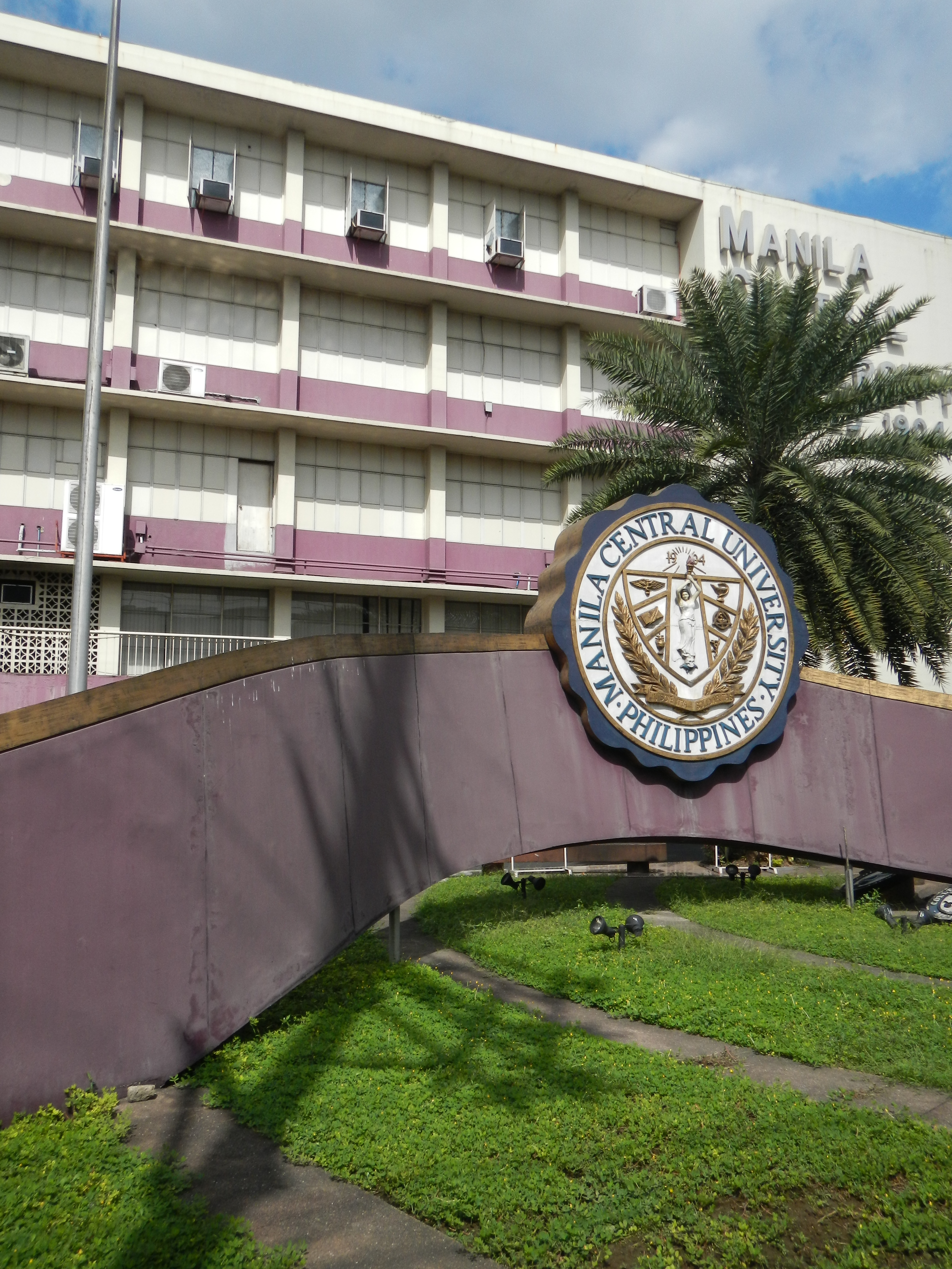 Upload Wizard photos of the -- (general description of landmarks, town, church) - a) Footbrige at Camachile, Balintawak[1], in front is the Iglesia Ni Cristo Church, b) Manila Central University [2] situated in EDSA, Caloocan City, the MCU Hospital [3] List of hospitals in Manila Manila Central University College of Nursing[4] [5] and towards the c) Landmark of Malabon City along Barangay Longos - the statues of the Malabon depicting the industry of food, fishing, etc.